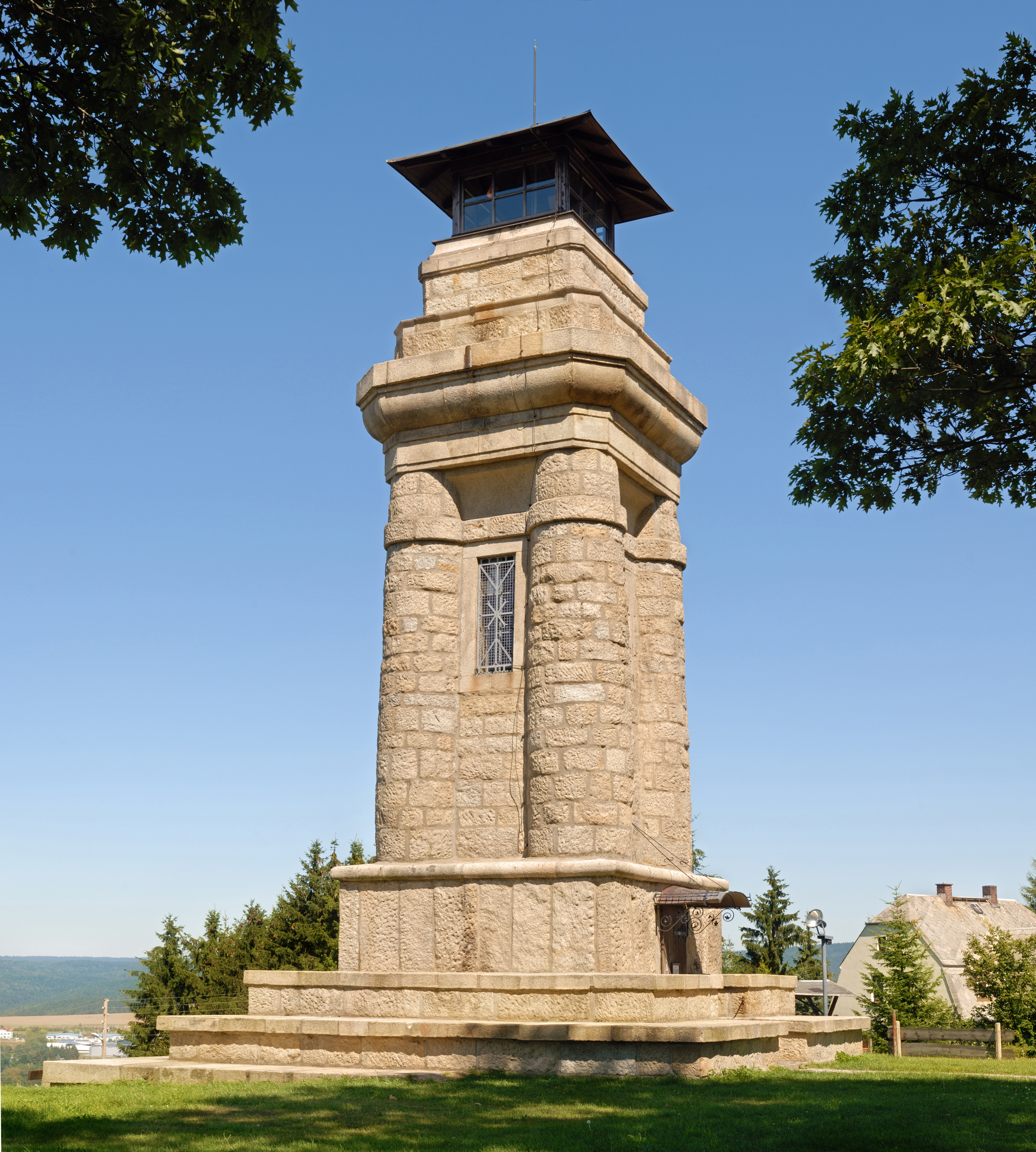 This image shows the Bismarck tower in Markneukirchen, Germany. It is a eight segment panoramic image.